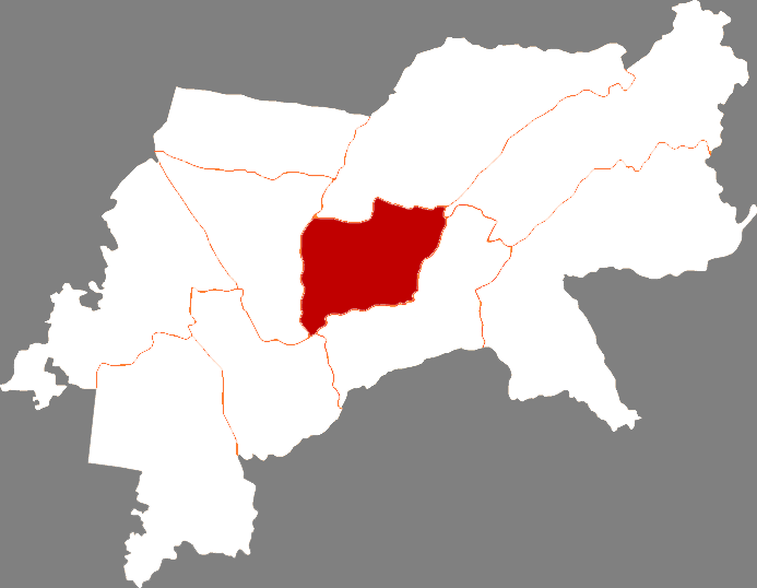 Location of Wankui County in Suihua City, China